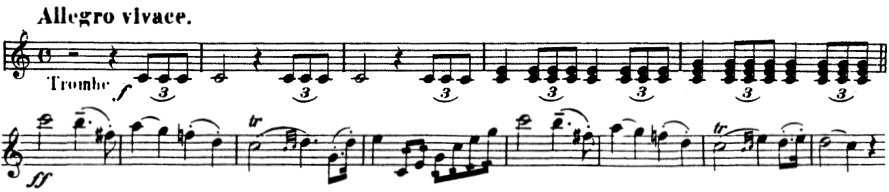 Theme of the Wedding March, from Mendelssohn's incidental music Ein Sommernachtstraum, Op. 61.